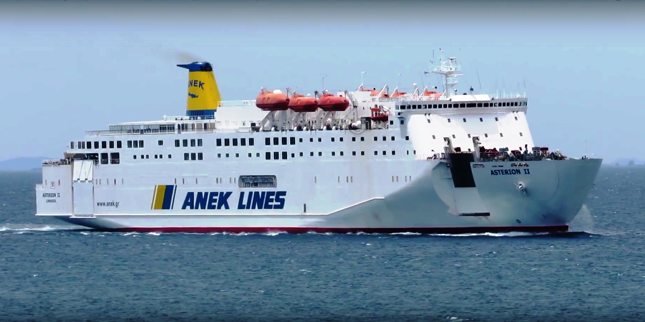 Asterion II entering Patra's port